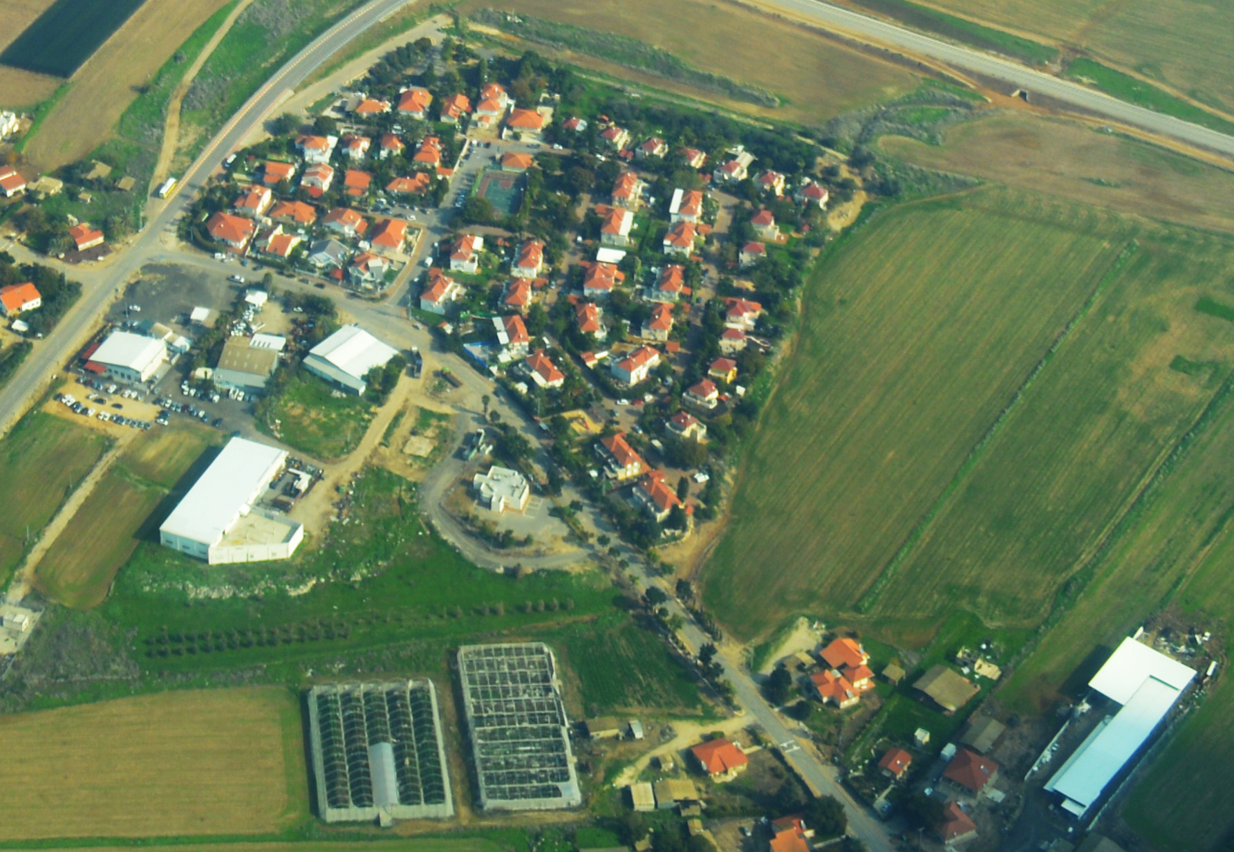 Vardon Aerial View